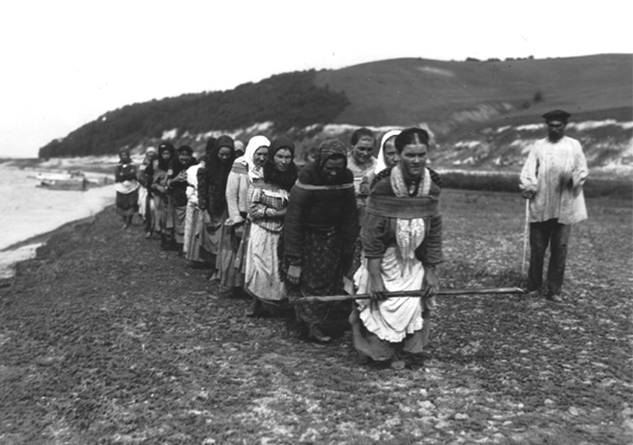 Burlak women on Volga River. Photo 1900s from Rybinsk state historical-architectural art museum and national park photofiles.